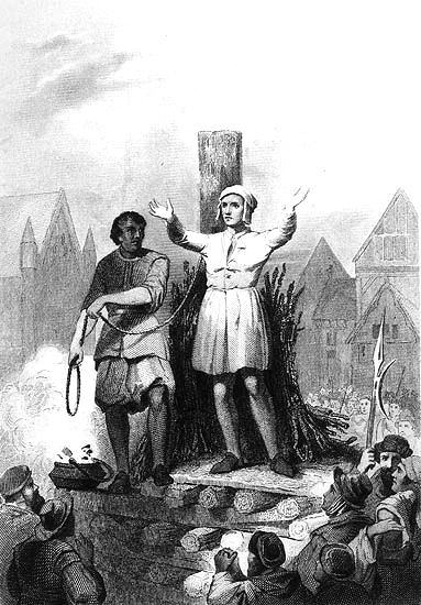 Jan de Bakker tortured to death